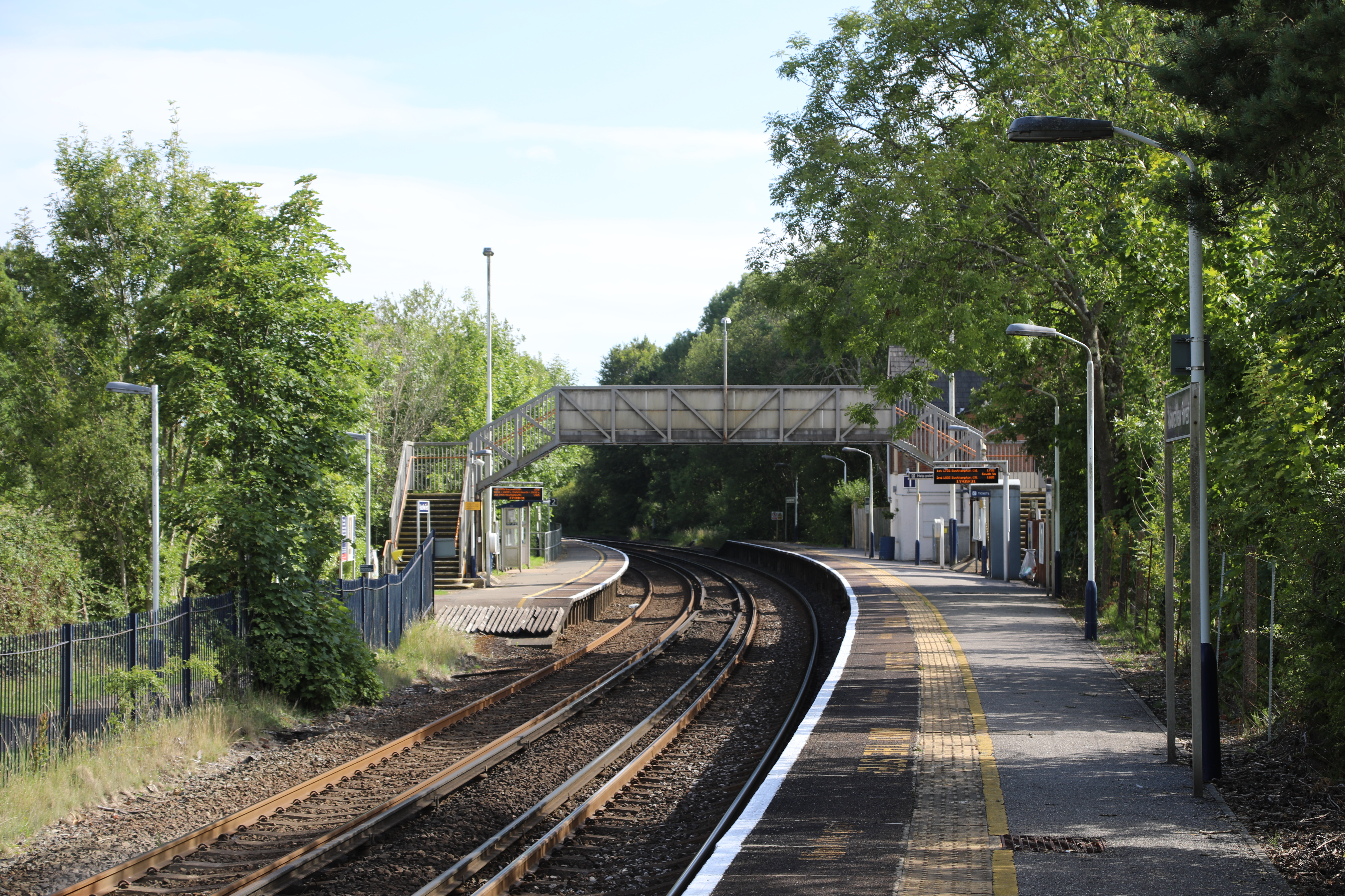 Photo of Ashurst New Forest railway station taken from the west platform.